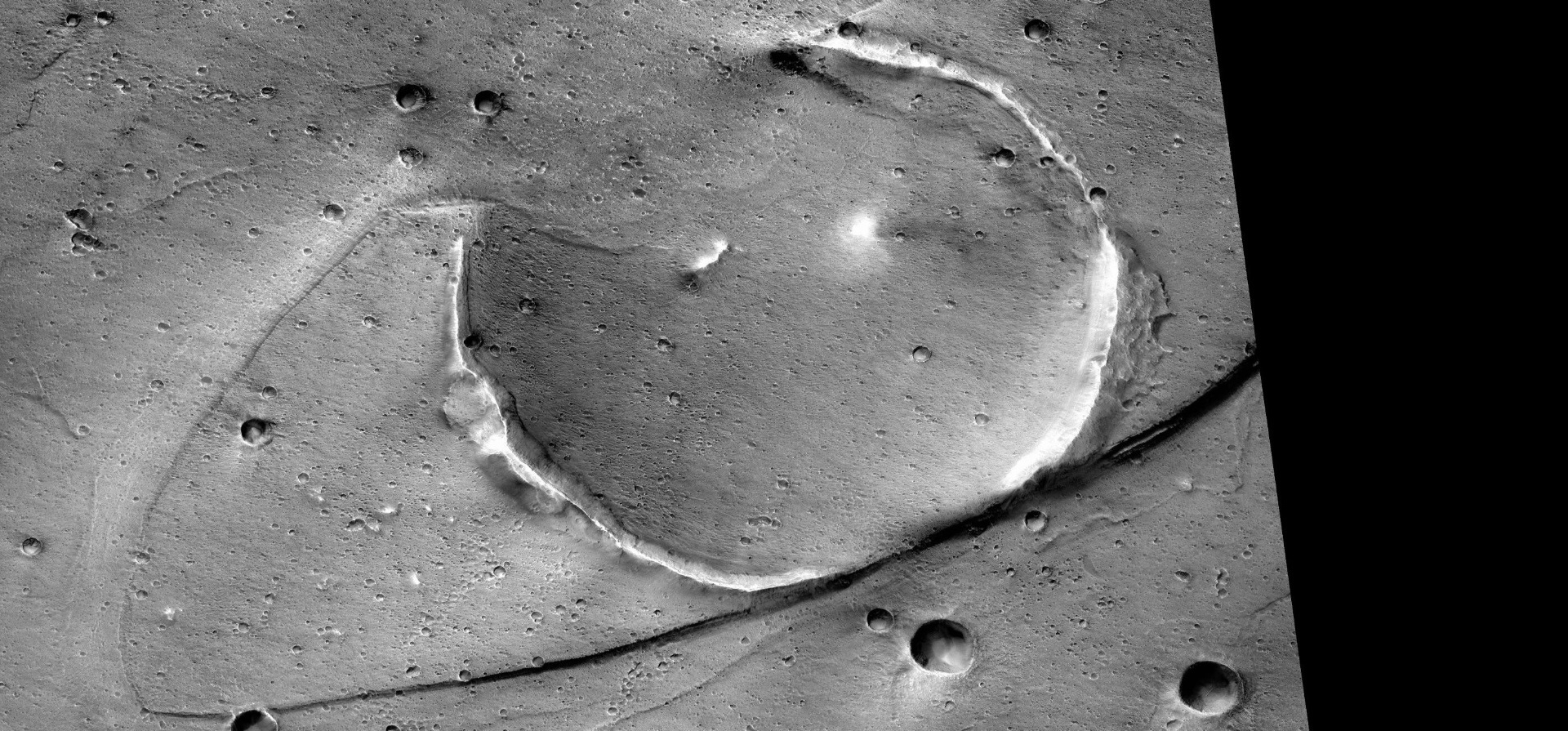 Streamlined form eroded on one side by tsunamis, as seen by CTX